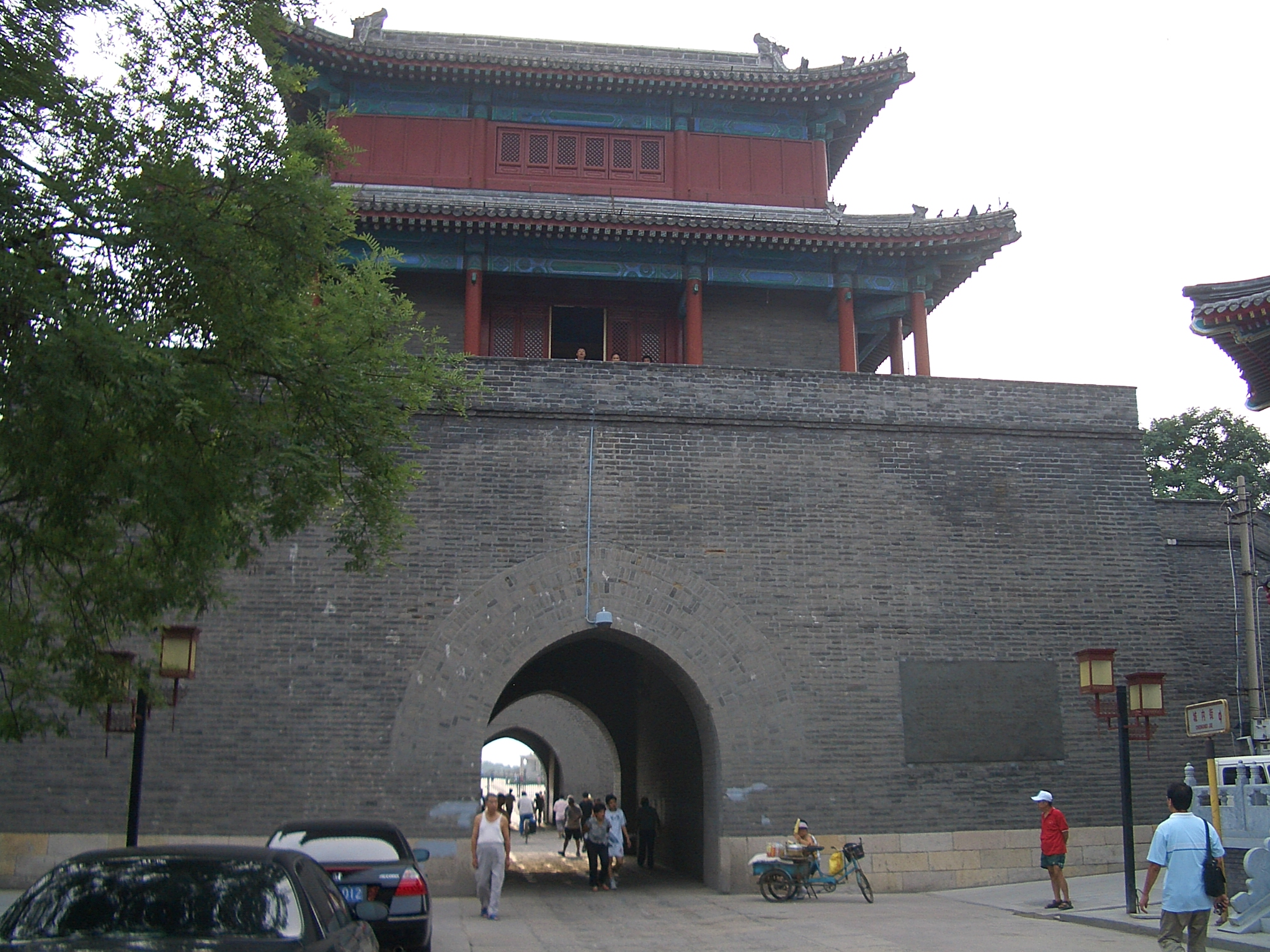 The Western Gate of the Beijing's Wanping Castle, facing Marco Polo